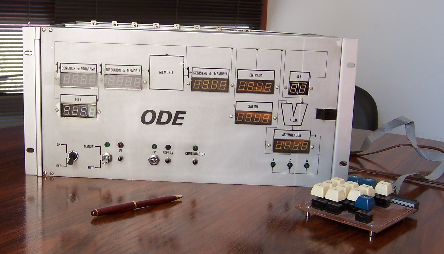 ODE prototype (1983, University of Granada).